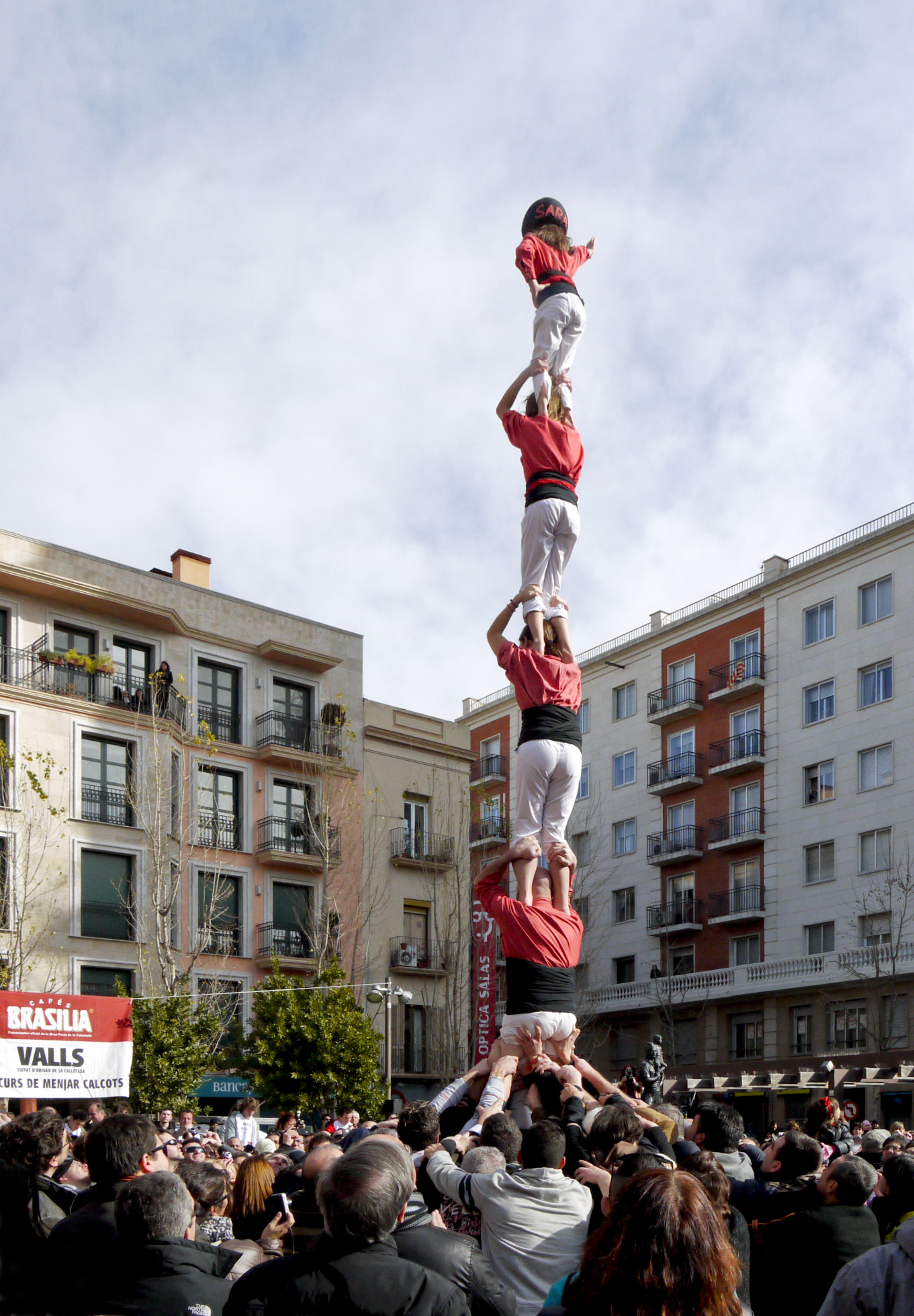 Castell, built in Valls, Tarragona, Spain, at Grand Festa de Calçots.